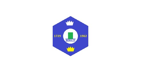 Flags of the city of Berilo, Minas Gerais , Brazil.